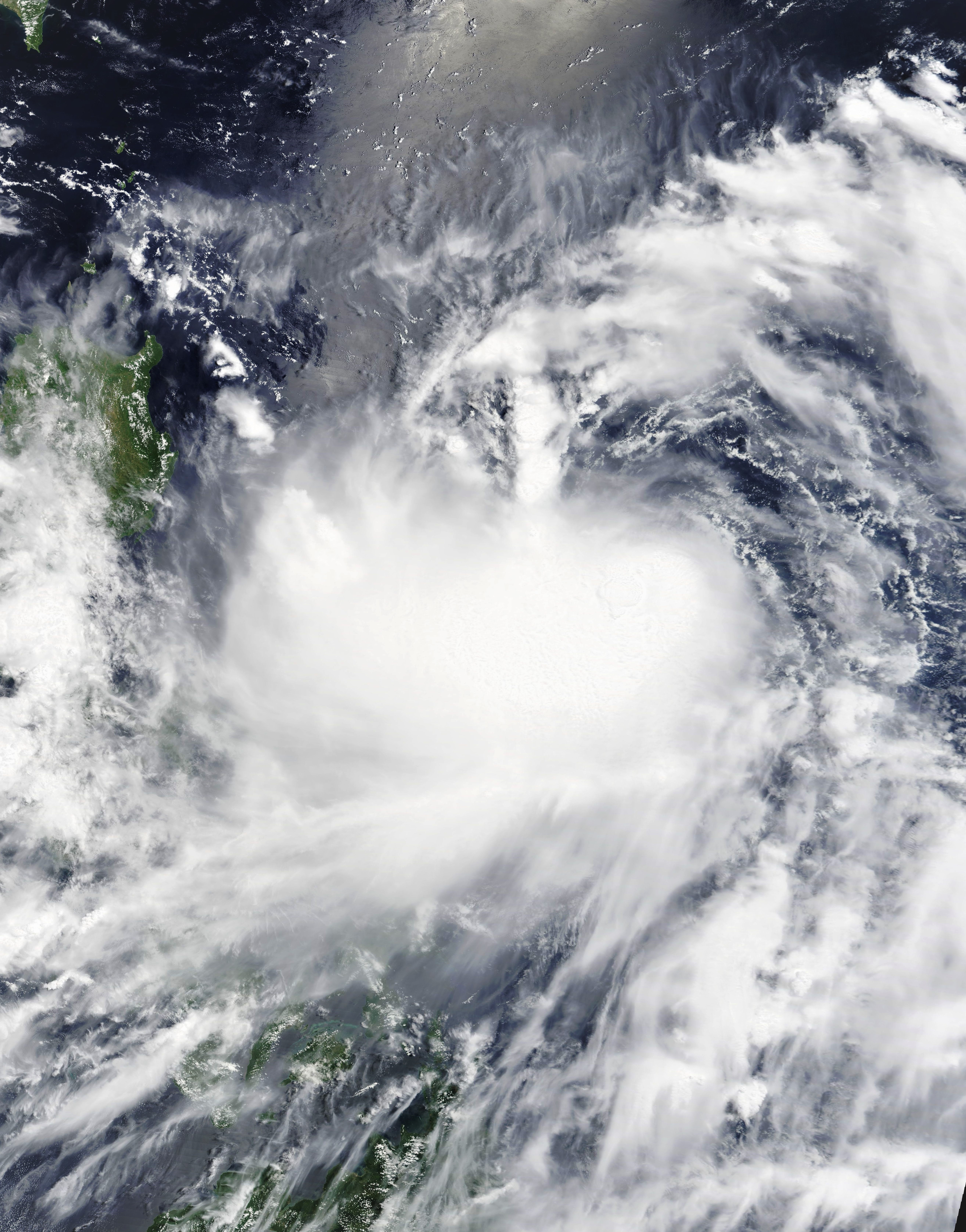 A satellite image of Tropical Storm Nesat off the coast of the Philippines at 02:30 UTC on 26 July 2017. The maximum one-minute sustained winds are 40 knots, and the ten-minute sustained winds are 35 knots.